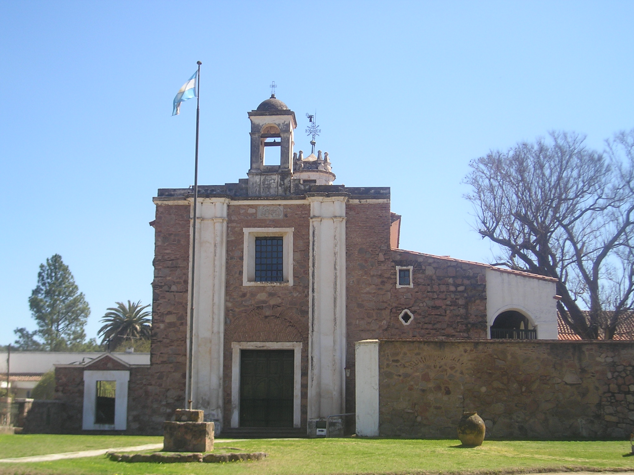 Jesús María, Argentina - the convent church